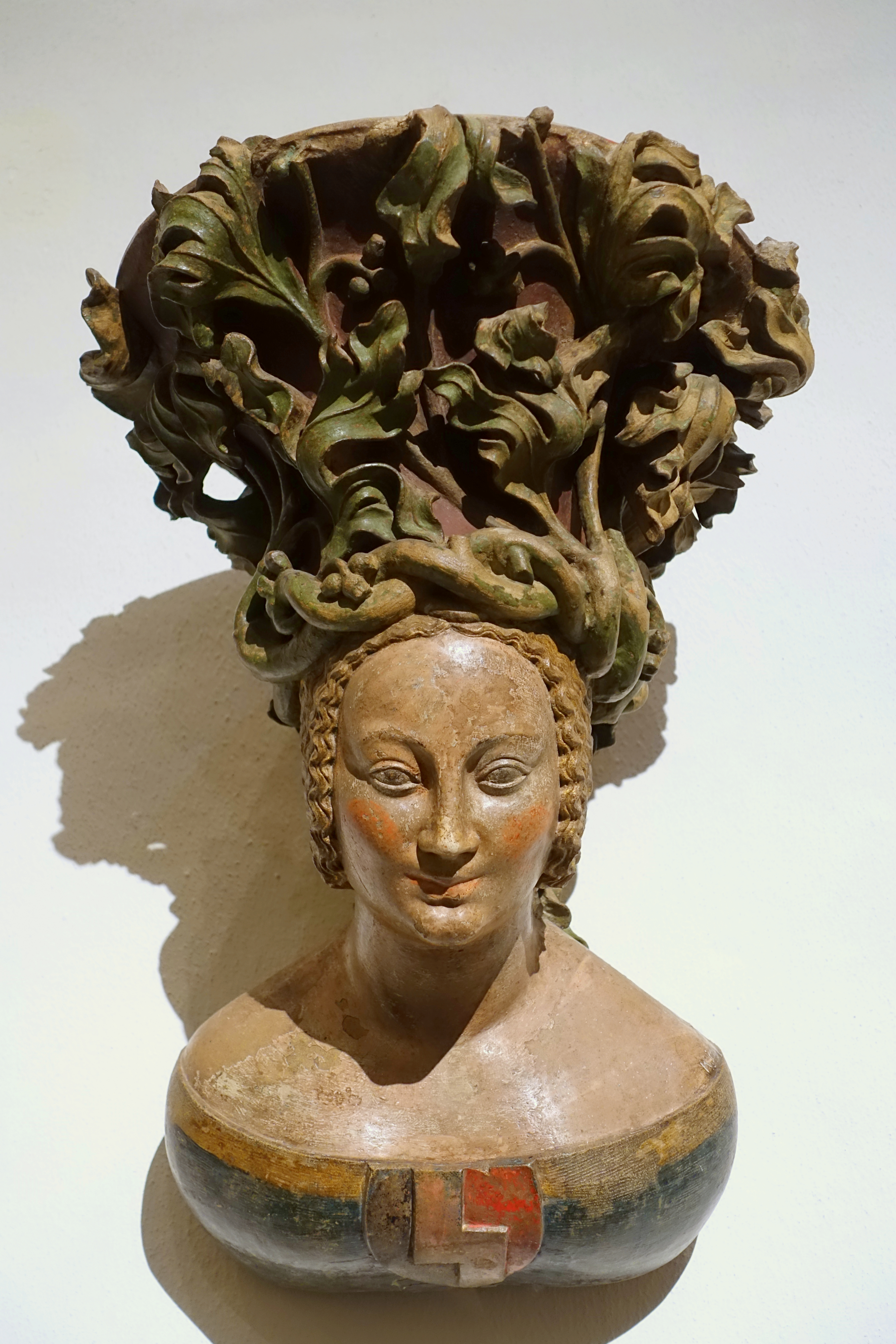 Exhibit in the Museum Schnütgen - Cologne, Germany.